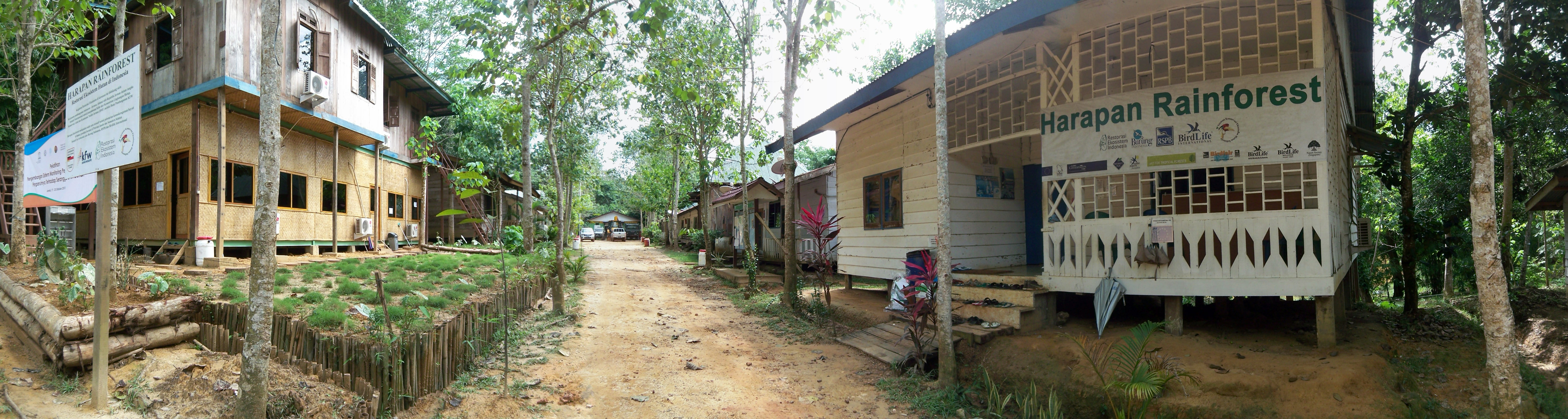 This is the office area of Harapan Rainforest, Jambi, Sumatera, Indonesia